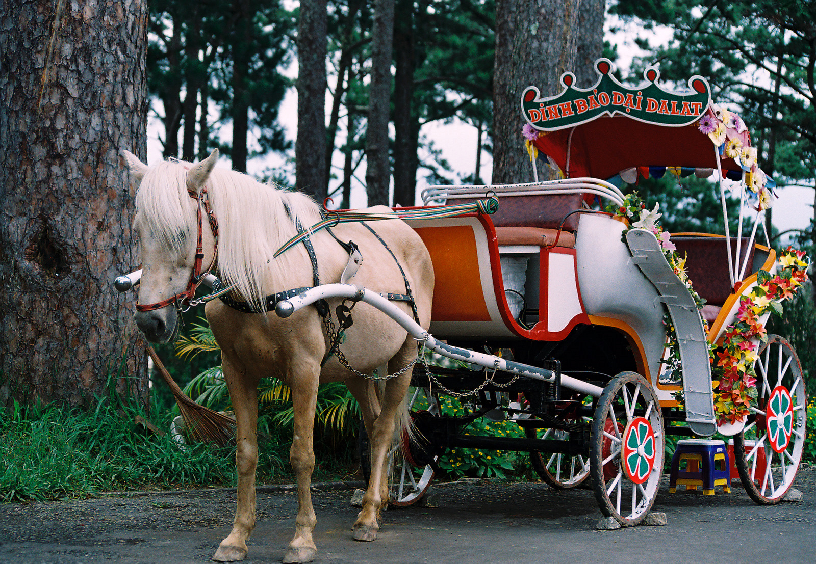 Xe ngựa trong Dinh Bảo Đại